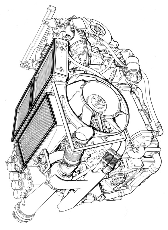 Hand Drawn Technical Illustration of an Engine, created by Gerald Geake in 2004.